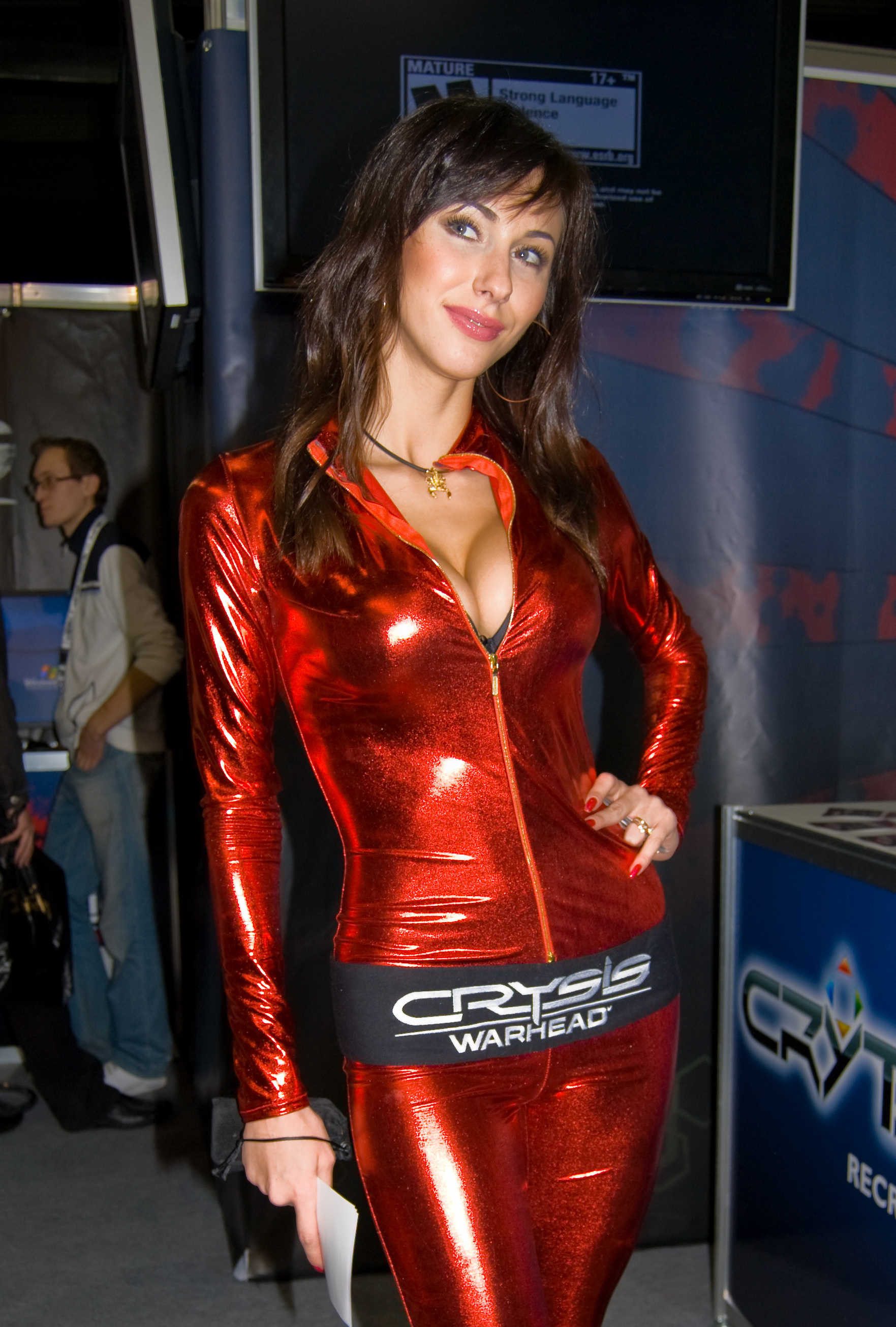 Crytek booth-babe from Games Territory 2008